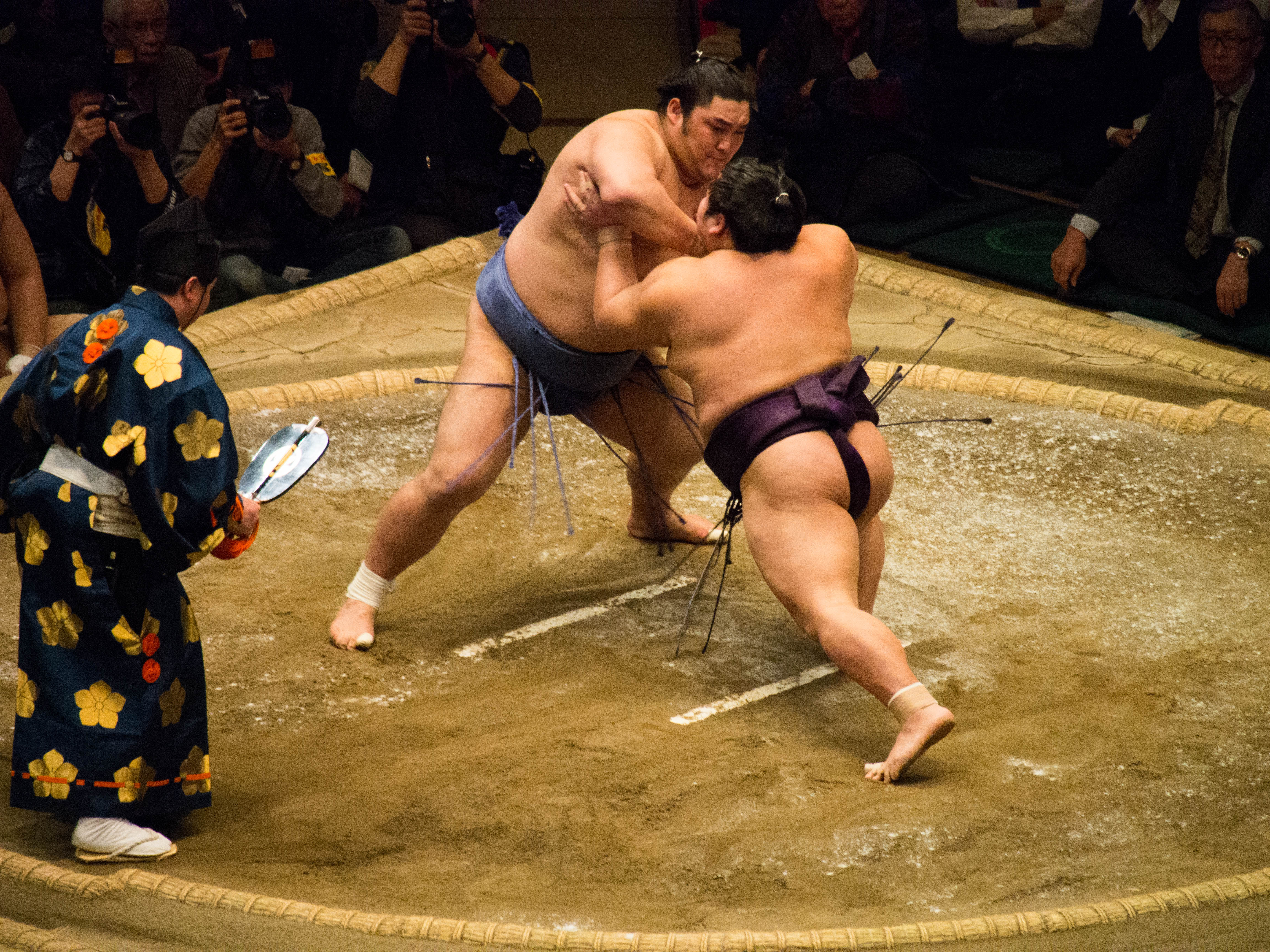 Okinoumi (blue) vs. Takekaze (purple) at the 2014 January Grand Sumo Tournament in Tokyo.